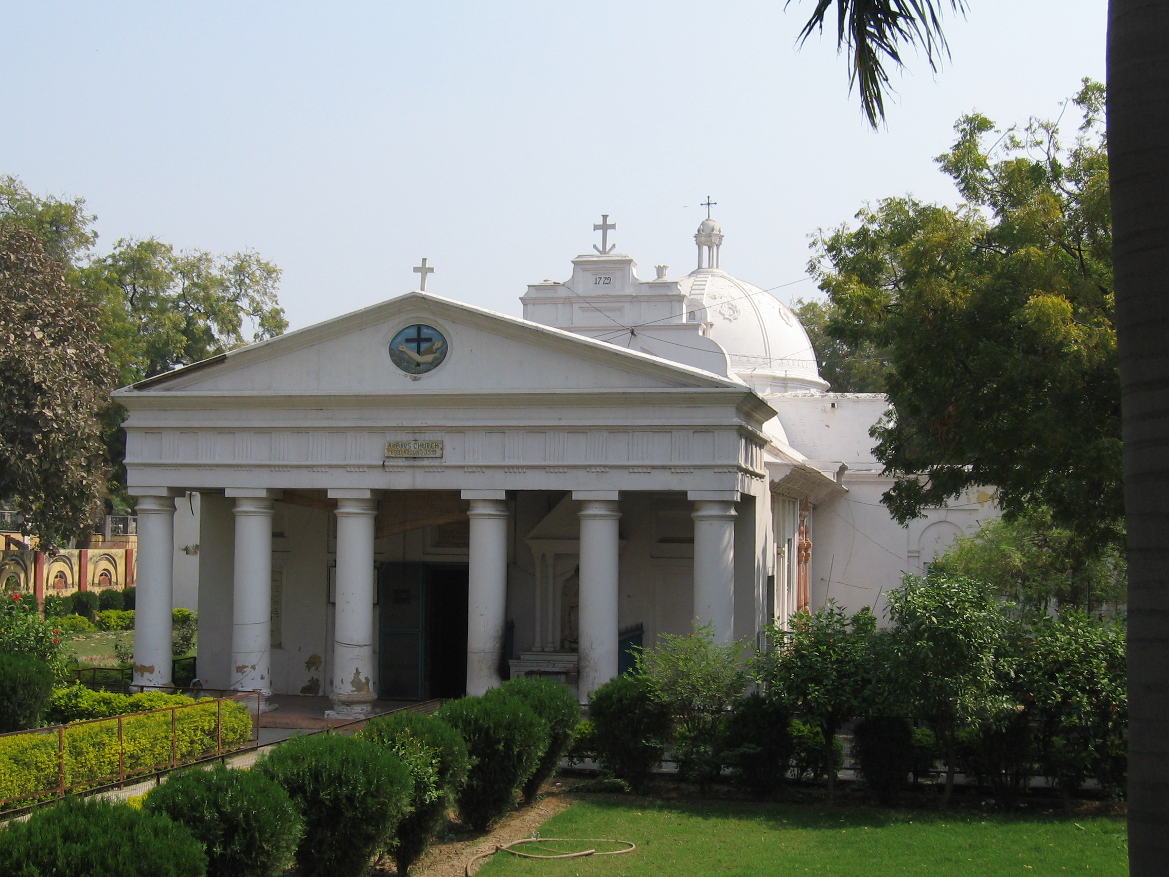 The Jesuit Church built at Agra, on a land donated by the emperor Akbar (XVIth century).